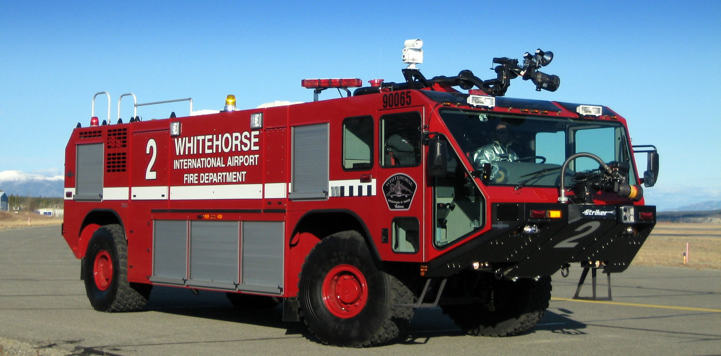 Whitehorse International Airport Fire Department 2008 ARFF Oshkosh Striker 1500 designated RED2